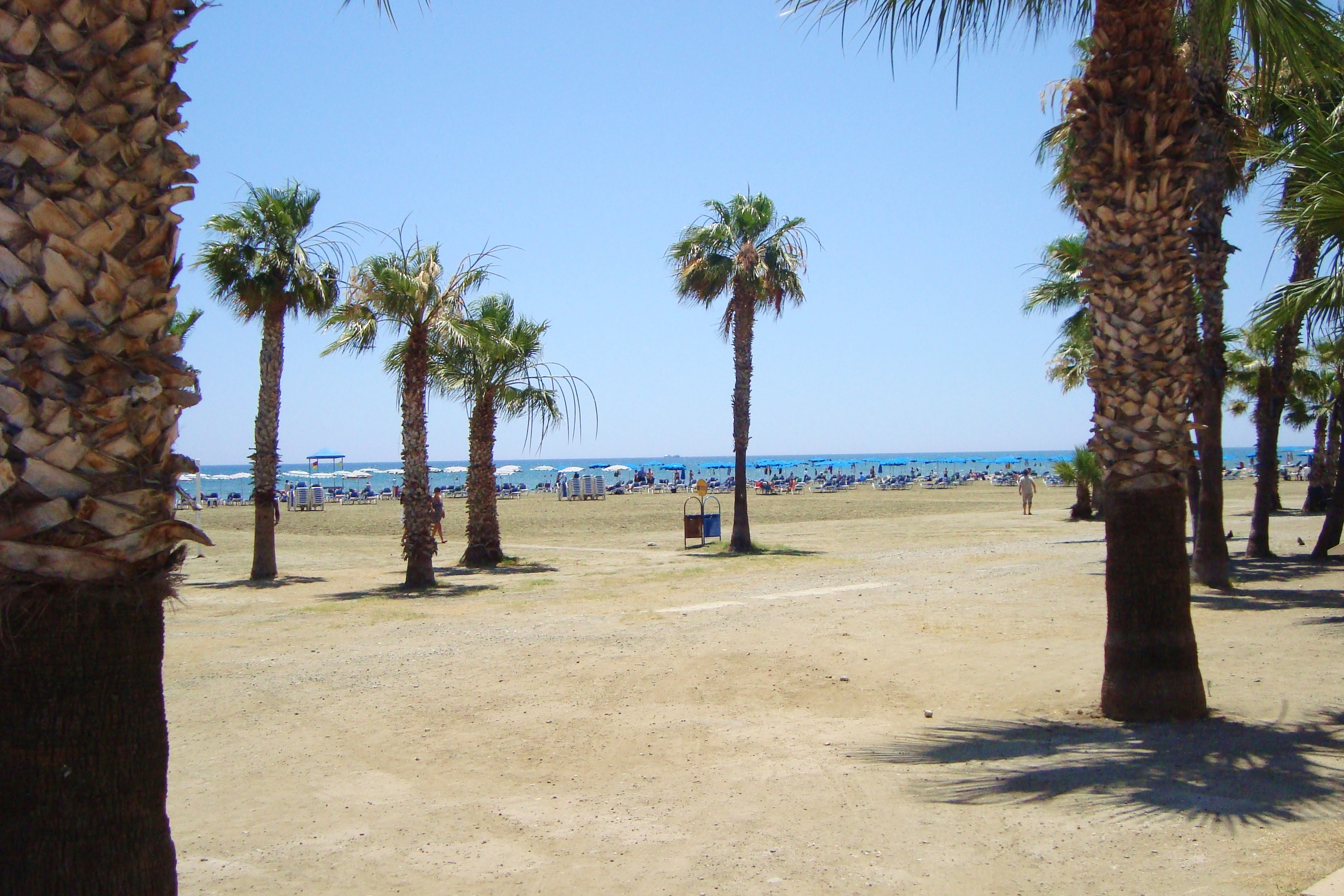 Foinikoudes beach in Larnaca Republic of Cyprus